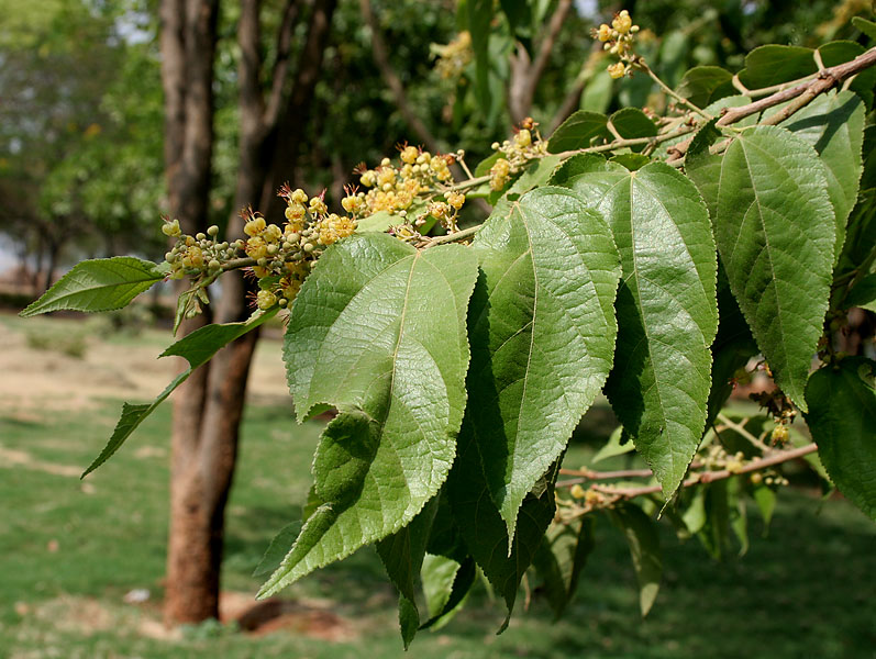 West india elm, Pigeon wood or Bay/ Bastard cedar Guazuma ulmifolia in Sanjeevaiah Park, Hyderabad, India.